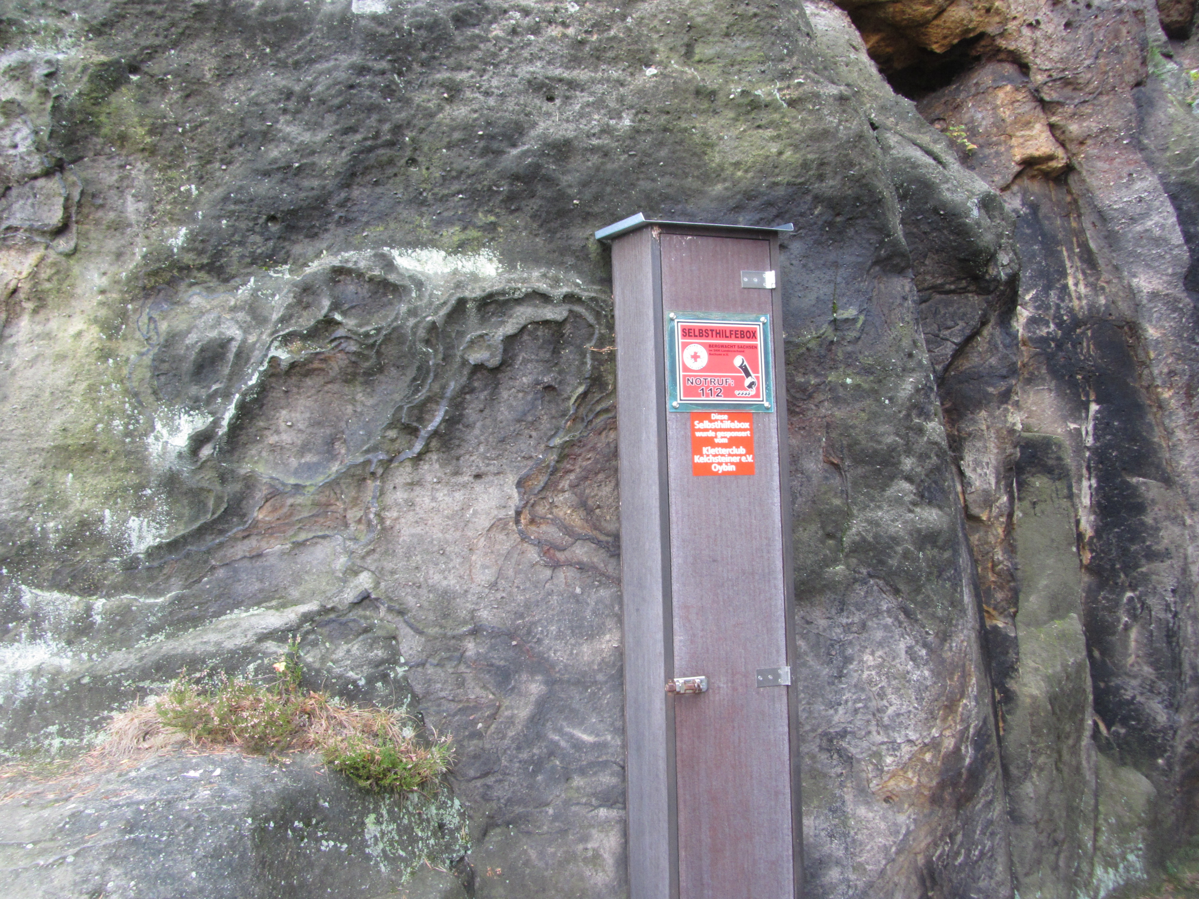 Mountain rescue box operated by Bergwacht Sachsen, located at the Nonnenfelsen in Jonsdorf , Germany